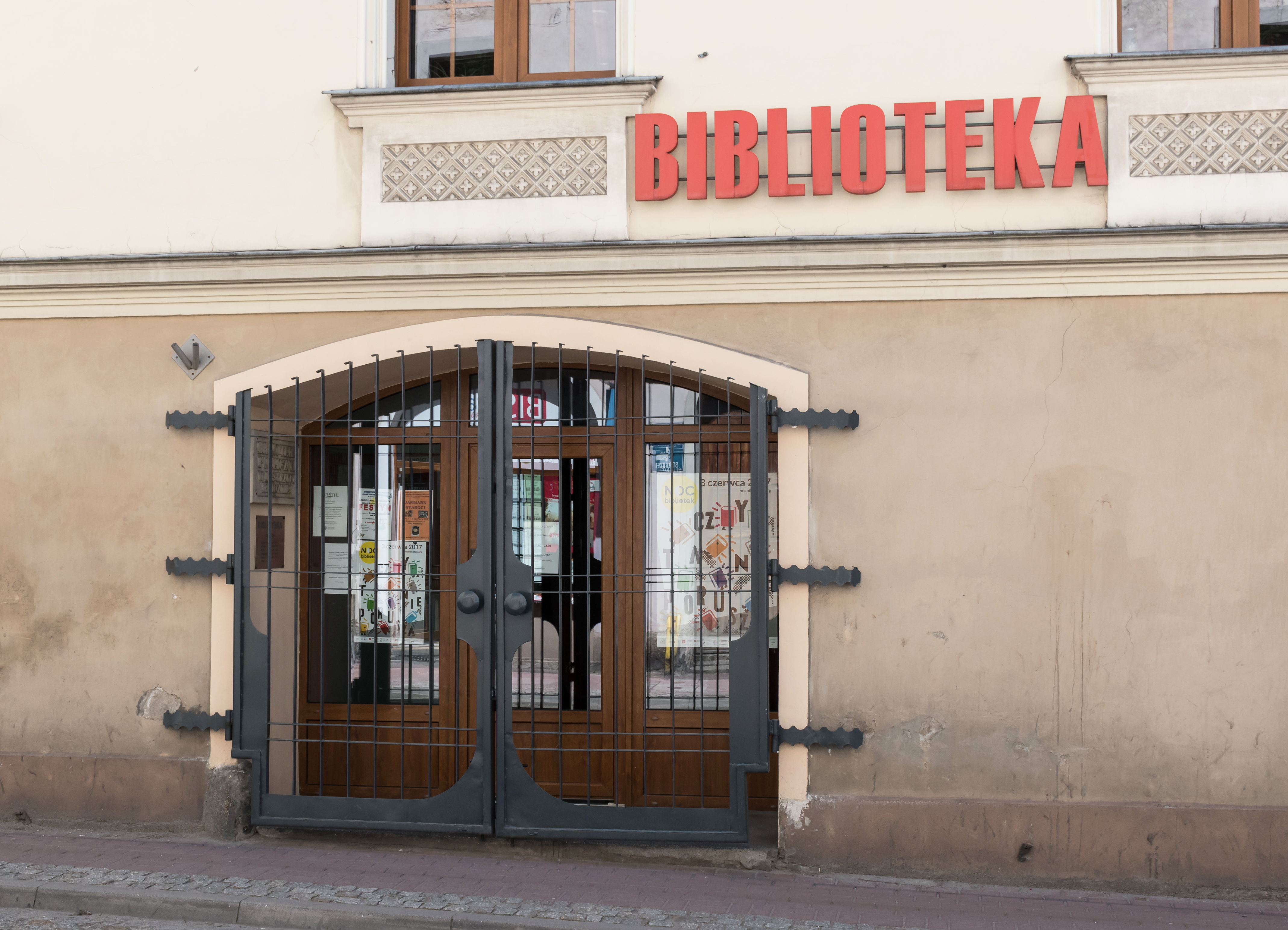 Library in Bystrzyca Kłodzka